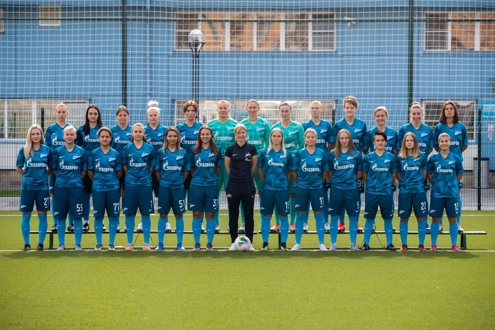 WFC Zenit squand during 2020 season